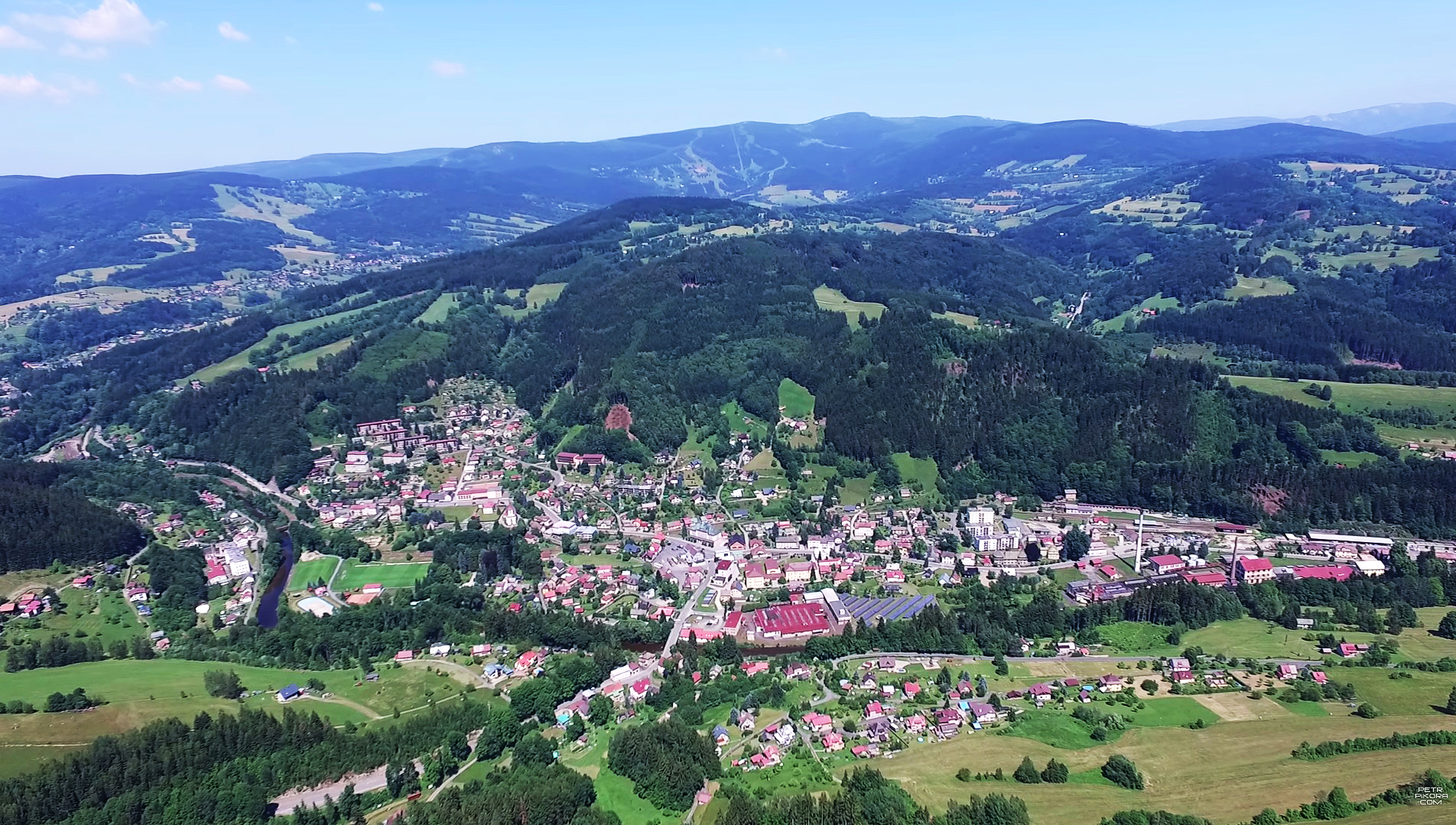 View on the city from the height